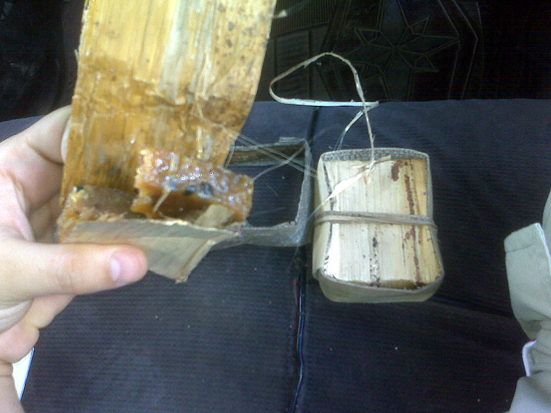 Pinonate Sweet, San Juan Bautista, Margarita, Venezuela